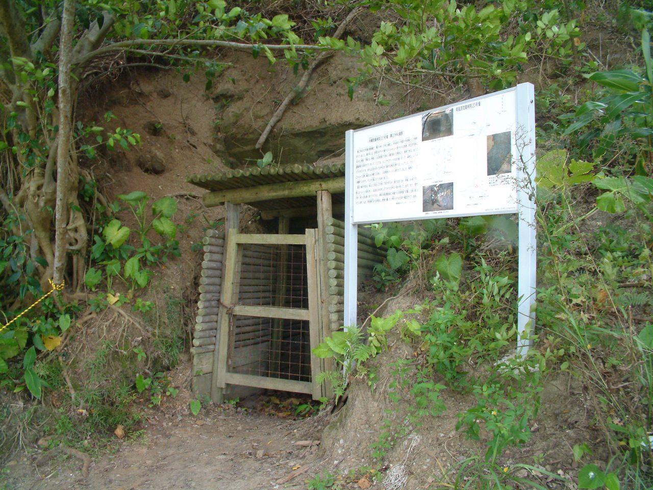 Shelter No.20 of Okinawa military hospital at Haebaru